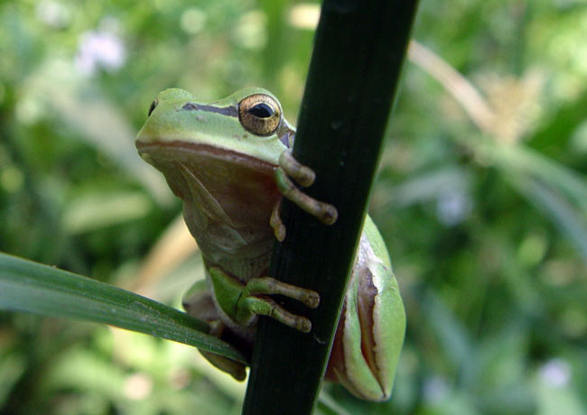 Hyla savignyi